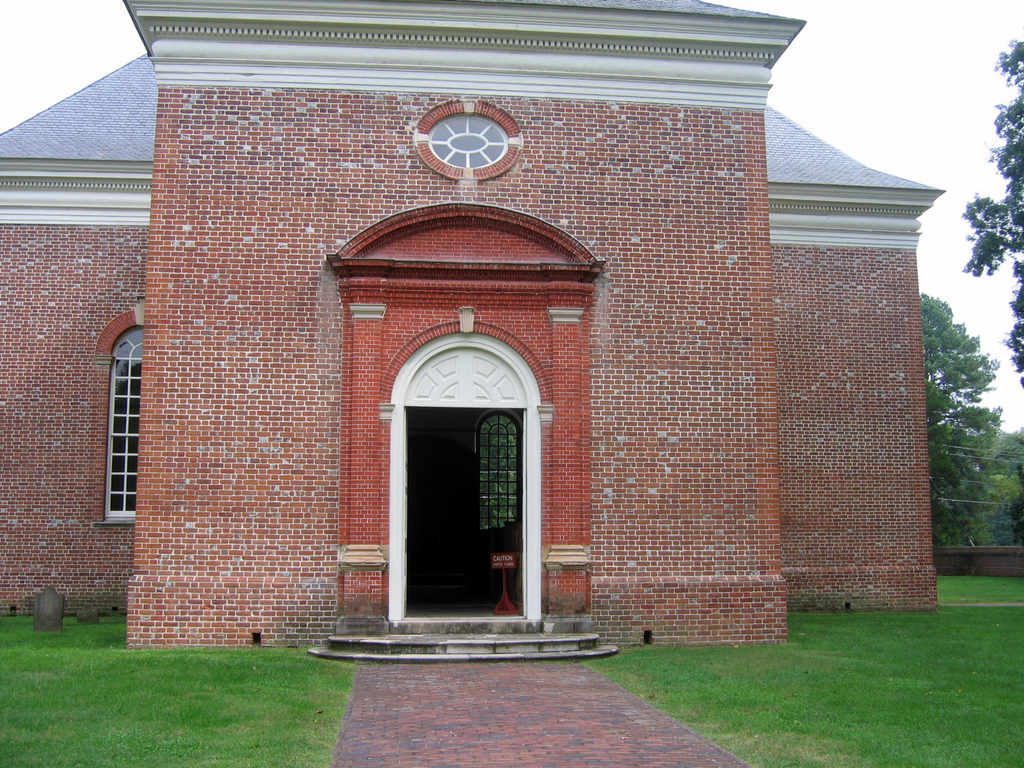 Historic Christ Church in Lancaster County, Virginia - main doorway with brickwork